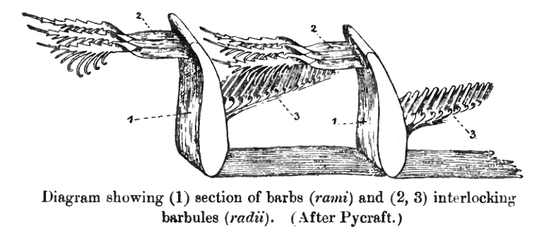 Feather locking